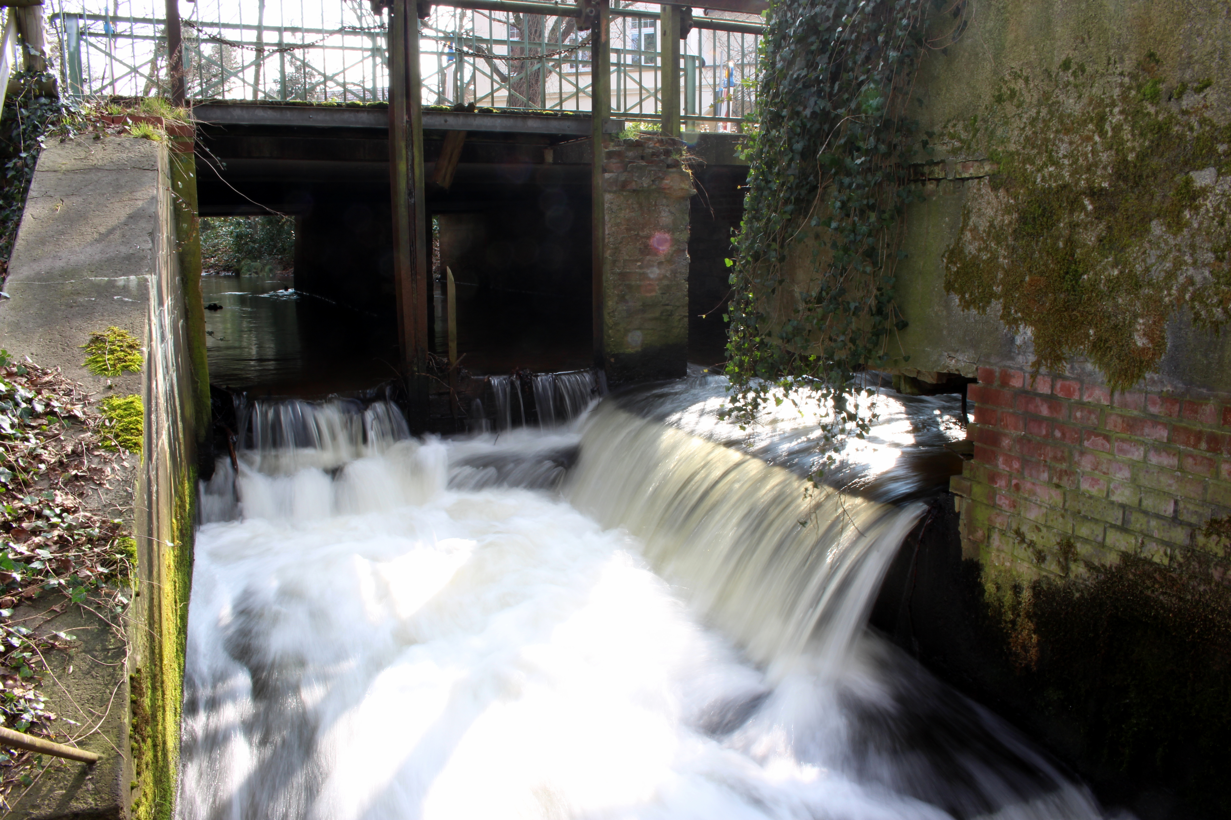 Ölbach next to the water mill of Verl